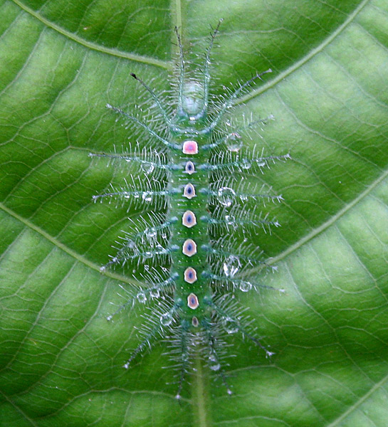 Grey Count Tanaecia lepidea caterpillar on Careya arborea- Slow Match Tree, Wild Guava, Ceylon Oak, Patana Oak • Hindi: कुम्भी Kumbhi • Marathi: कुम्भा Kumbha • Tamil: Aima, Karekku, Puta-tanni-maram • Malayalam: Alam, Paer, Peelam, Pela • Telugu: araya, budatadadimma, budatanevadi, buddaburija • Kannada: alagavvele, daddal • Bengali: Vakamba, Kumhi, Kumbhi • Oriya: Kumbh • Khasi: Ka Mahir, Soh Kundur • Assamese: Godhajam, কুম Kum, kumari, কুম্ভী kumbhi • Sanskrit: Bhadrendrani, गिरिकर्णिका Girikarnika, Kaidarya, कालिंदी Kalindi- sapling in Goa, India.